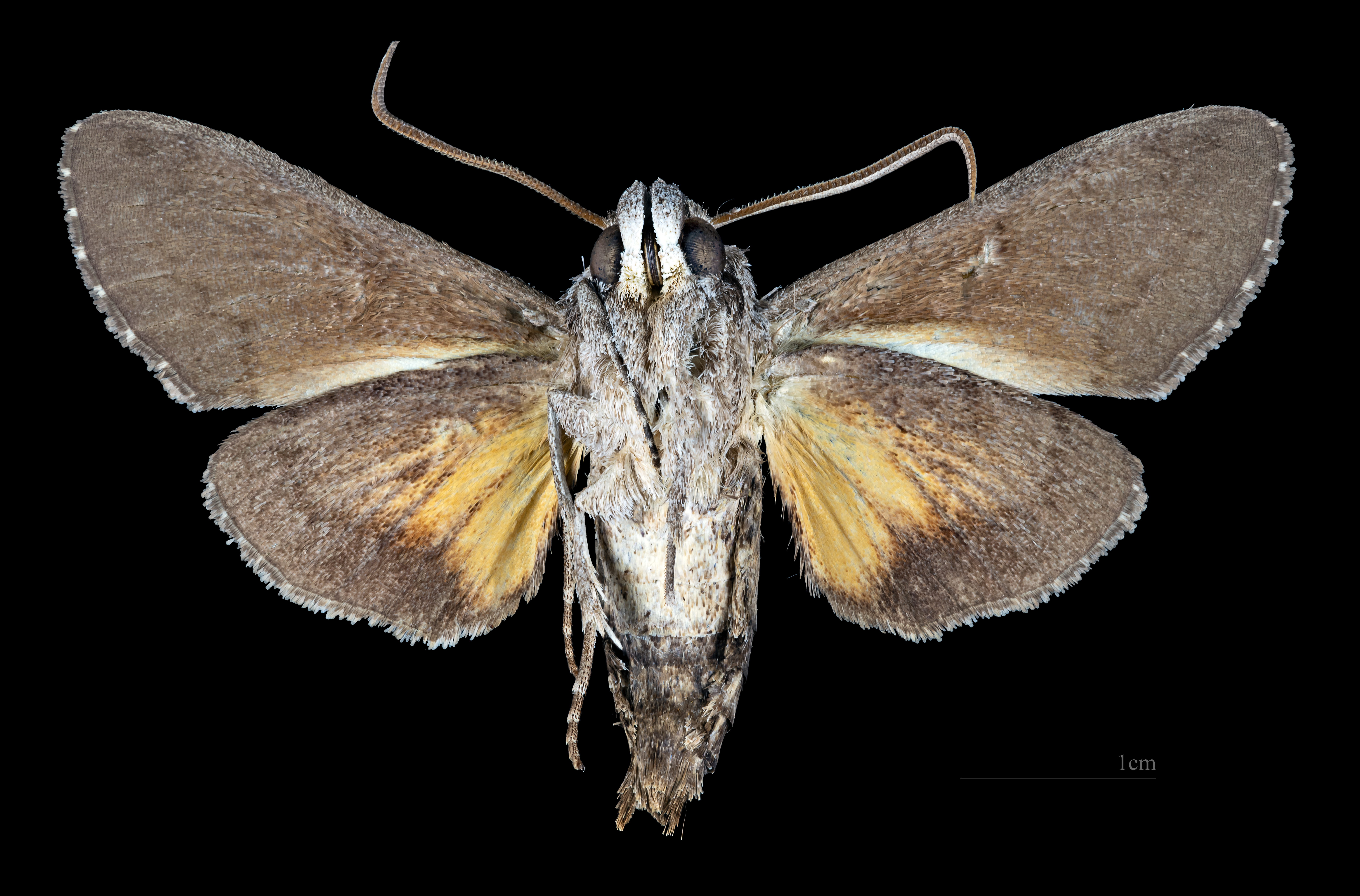 Cautethia grotei - △ Ventral side Collection of the Mathematician Laurent Schwartz